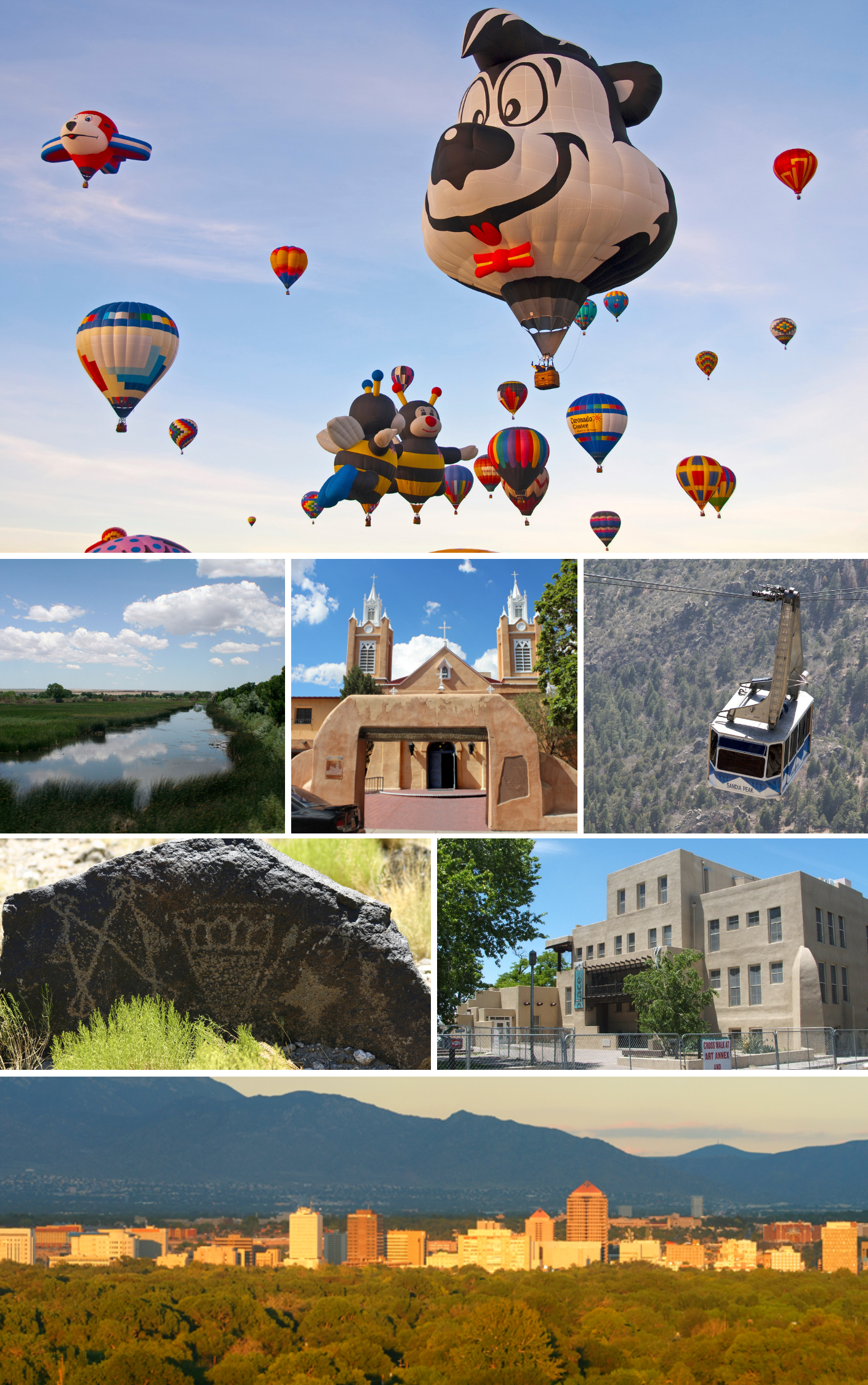 This is a collage to be used in the infobox for articles named "Albuquerque, New Mexico".